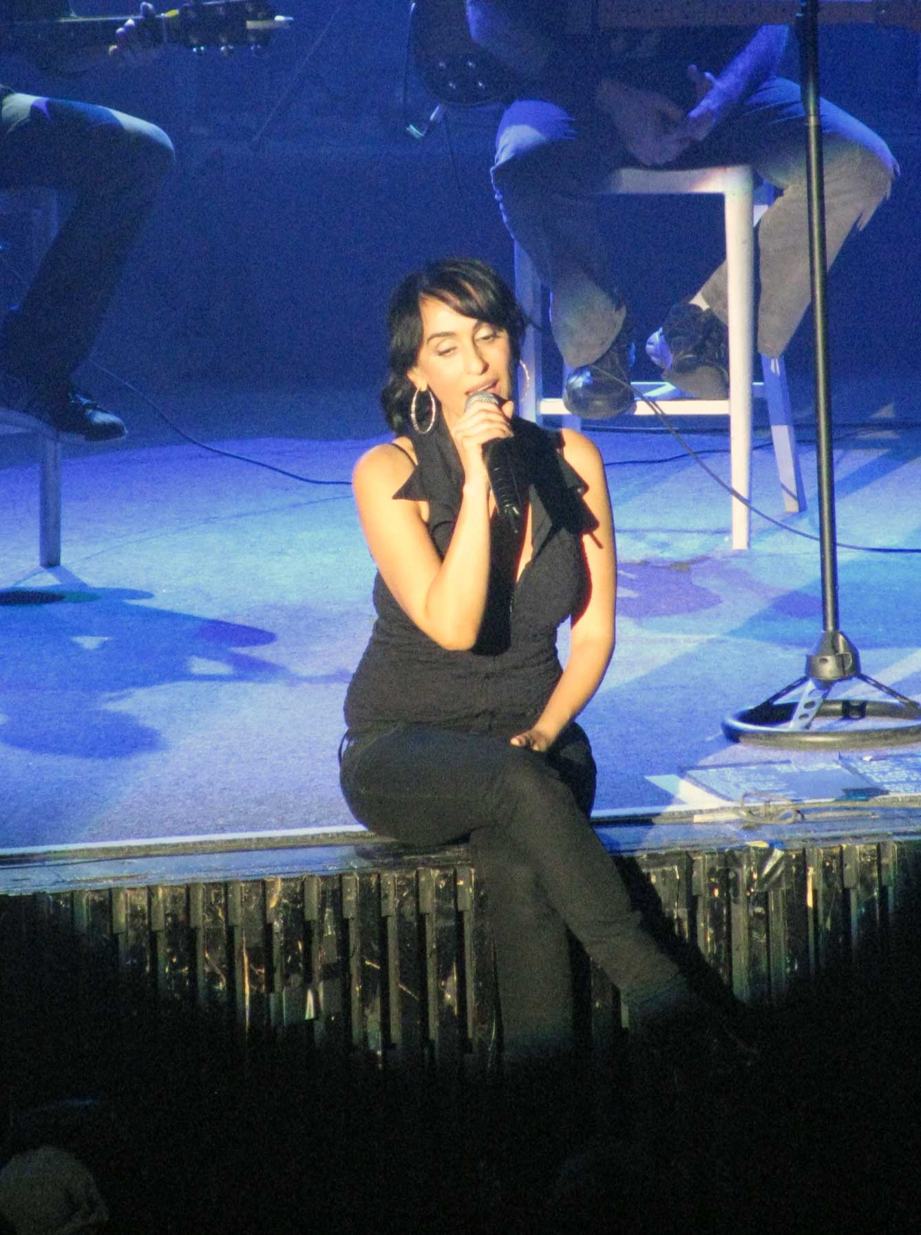 Israeli singer, Rita Yahan Farouz, during her concert at Jerusalem